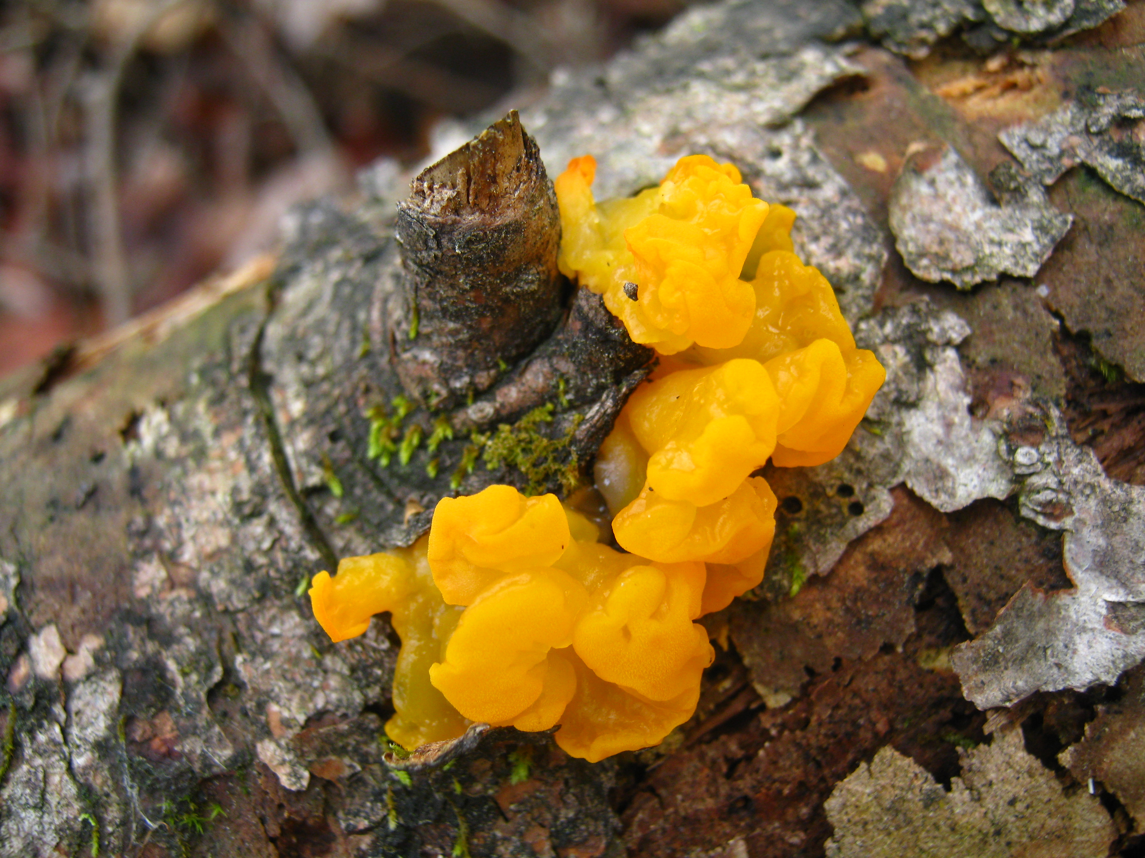 Dacrymyces palmatus (Schwein.) Burt Location: Forest near Elgin Street, Pembroke, Ontario, Canada Observation Notes: Found in Zone 06 on a fallen branch. For more information about this, see the observation page at Mushroom Observer.